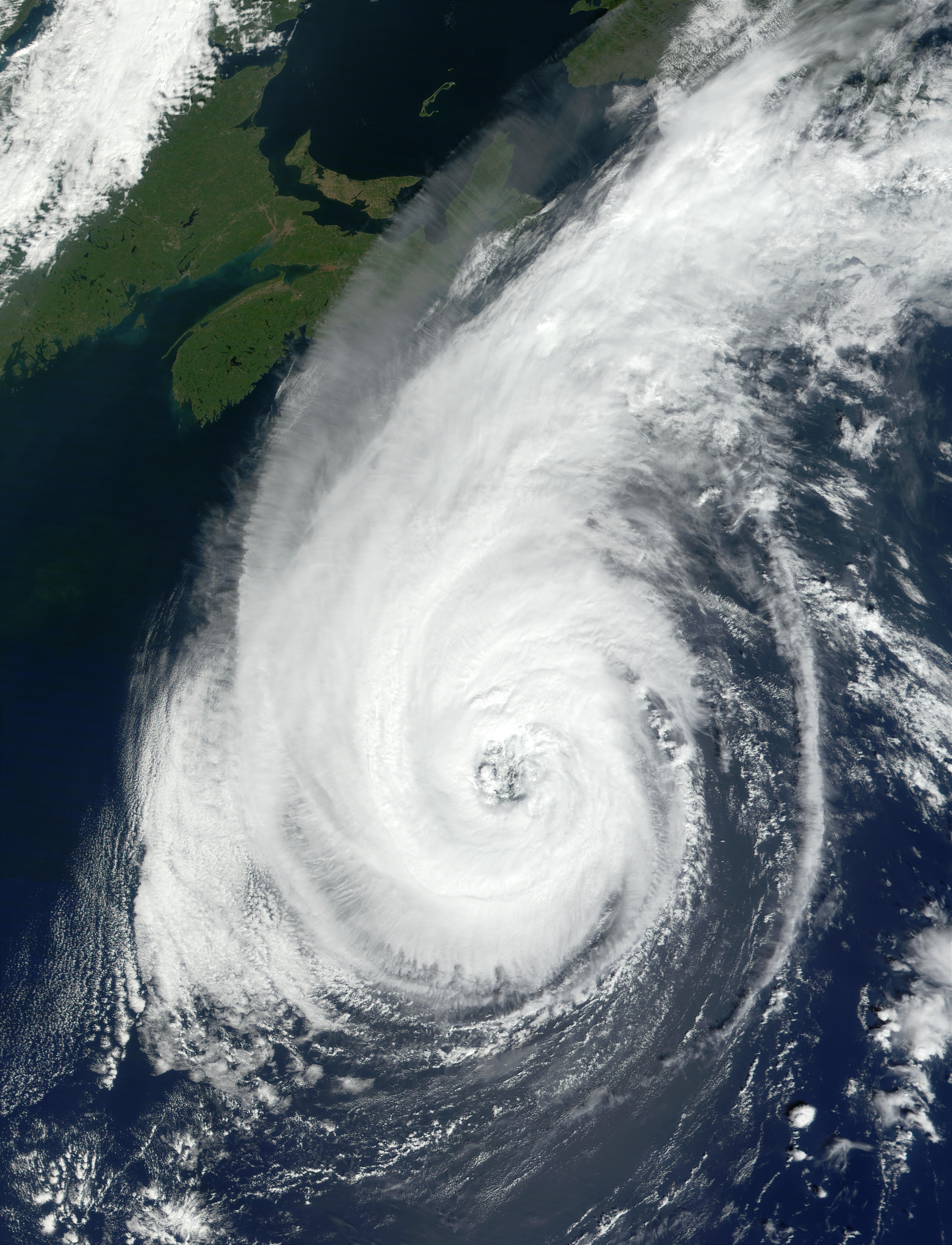 On September 11, Hurricane Erin was making her way northward in the Atlantic Ocean. In this MODIS image, the storm stretches from the latitudes of Virginia in the south, past Massachusetts's boot-shaped Cape Cod, and on up to Maine. Coastal areas along the eastern seaboard have been affected by large swells produced by the storm.